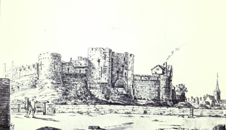 York Castle in 1699